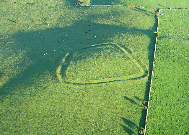 The Battery, north of Caermote, near Bothel. The only feature of interest in this grid square is seen best from this vantage point when the sun is low. Clearly it was an enclosure, but there is no record it was a battery and it has not been excavated.